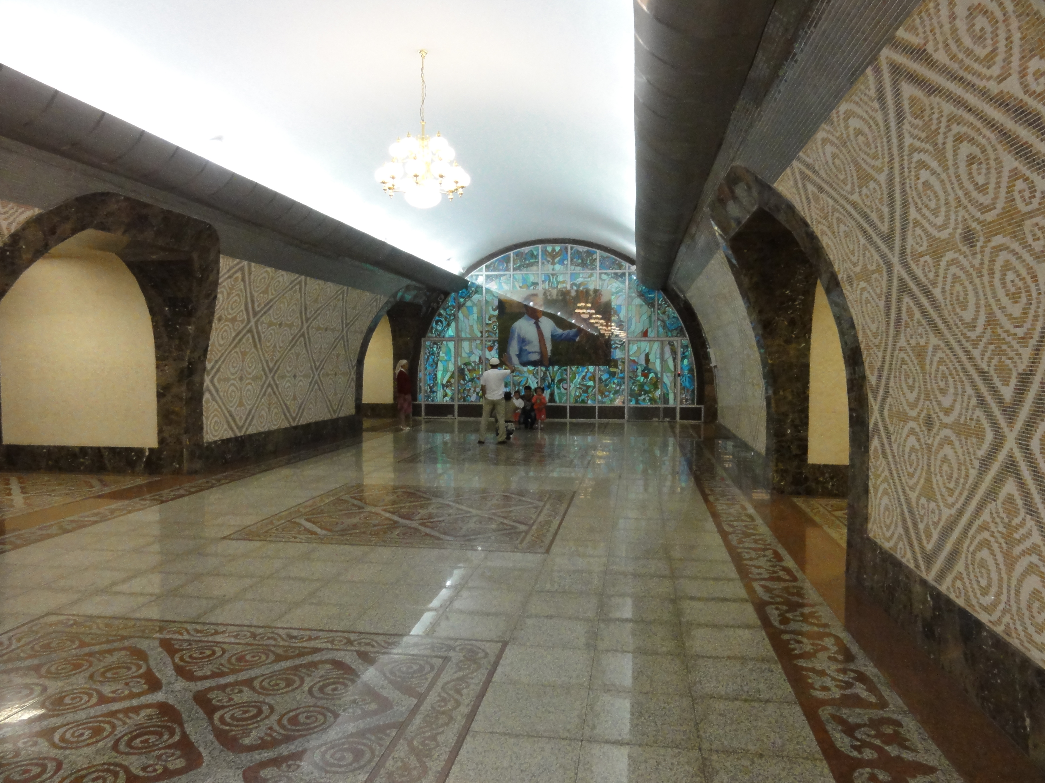 The new metro in Almaty uses 7 stations. This pictures shows the station near the opera.